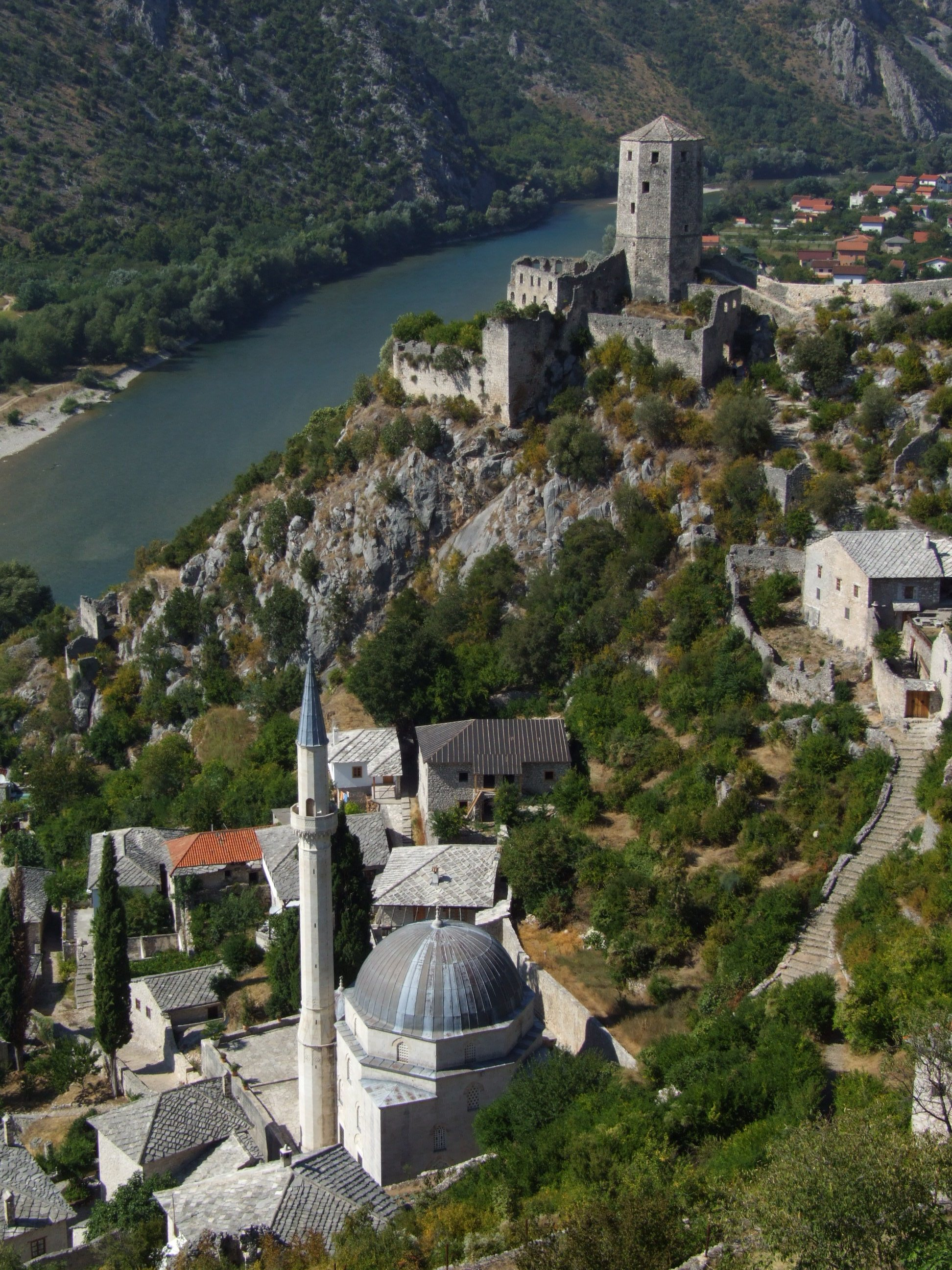 Počitelj - general view